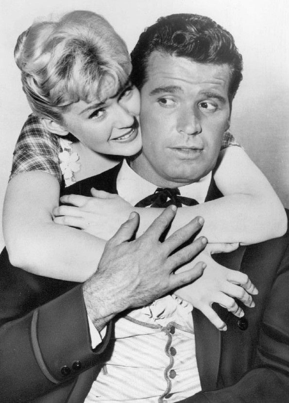 Publicity photo of Connie Stevens and James Garner as Bret Maverick from the television program Maverick. This is from "Two Tickets to Ten Strike".